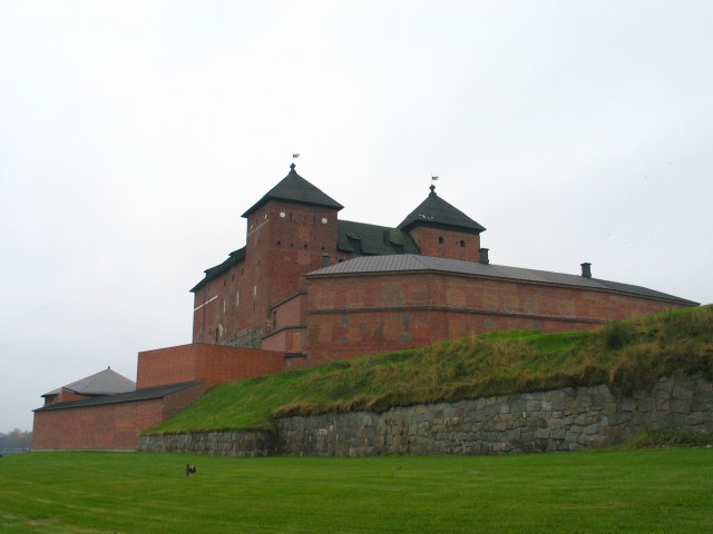 The castle "Hämeen linna" (Castle of Häme) at Hämeenlinna, Finland